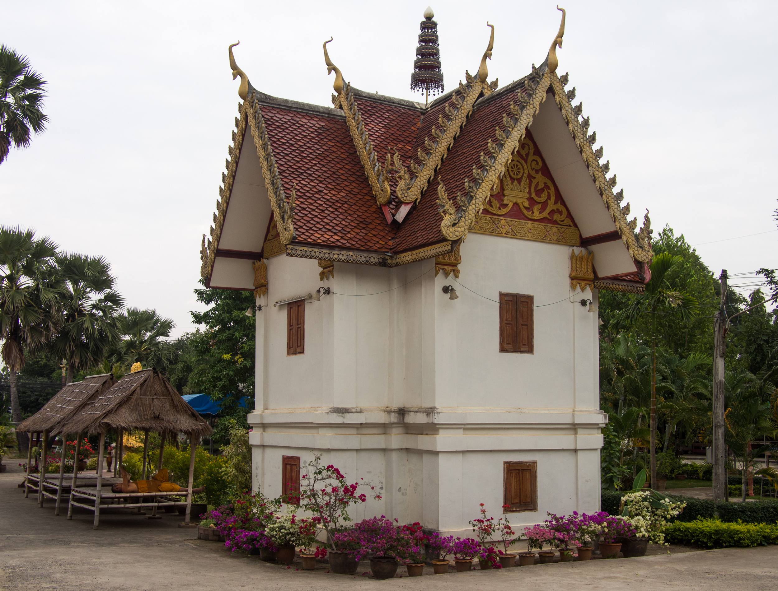 The ho trai (religious scriptures depository building) of Wat Suan Tan.